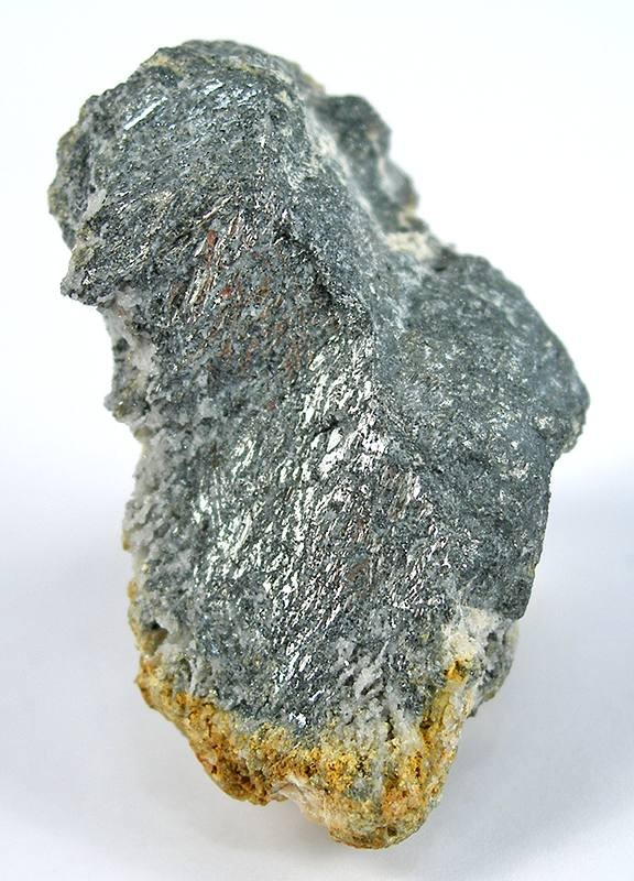 Stützite, Tellurium Locality: Moctezuma Mine (Bambolla Mine), Moctezuma, Municipio de Moctezuma, Sonora, Mexico (Locality at ) Size: 3.7 x 3.3 x 1.7 cm. A rare silver telluride! This specimen is composed of a really rich coating of surface-laying, splendent, metallic-gray crystals of stützite upon the typical Moctezuma mine matrix enriched in native tellurium. Additionally, there may be tetradymite present as well: three very rare species, all having tellurium in their formula.